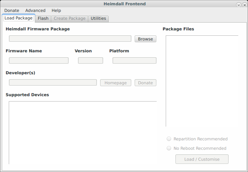 The GTK-based frontend for Heimdall, running on Ubuntu Linux.